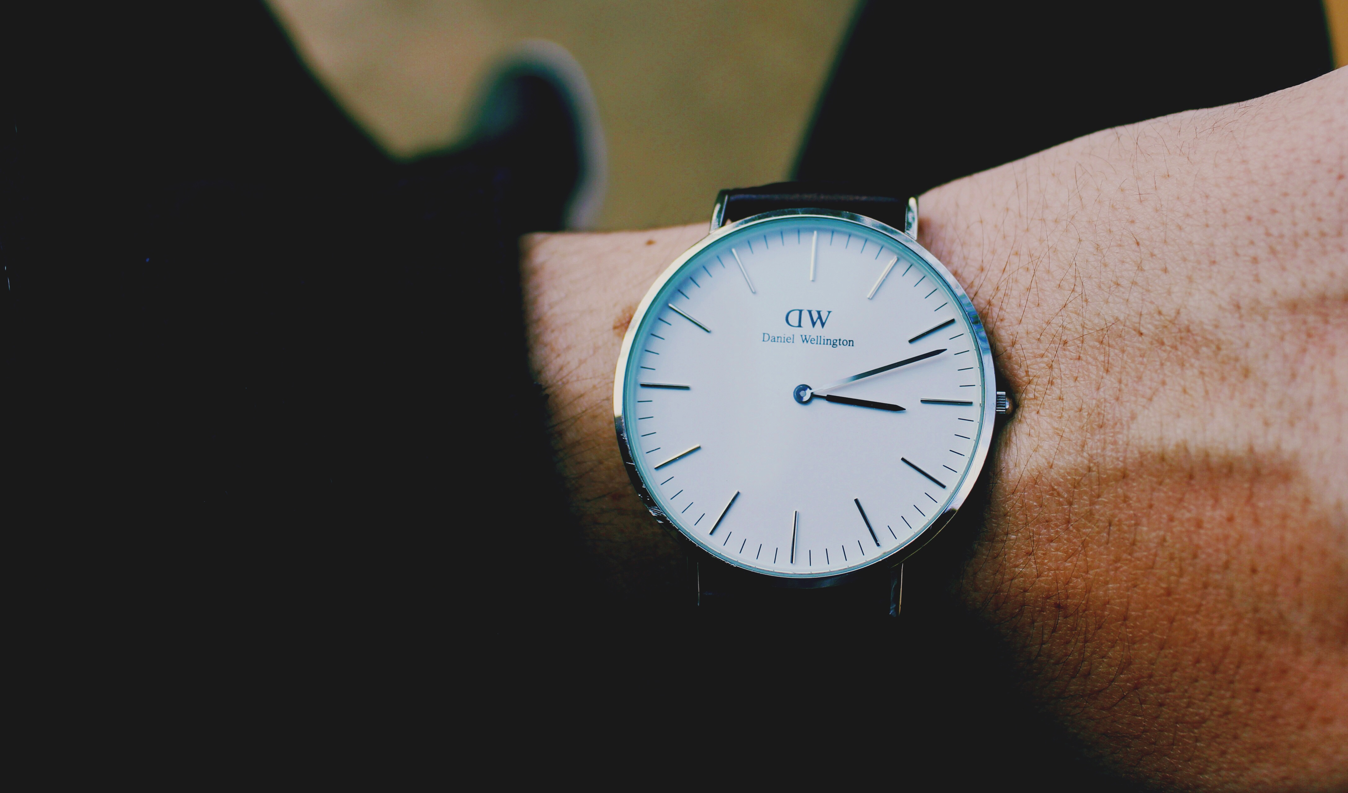 996E Marlin St, Pretoria, South Africa